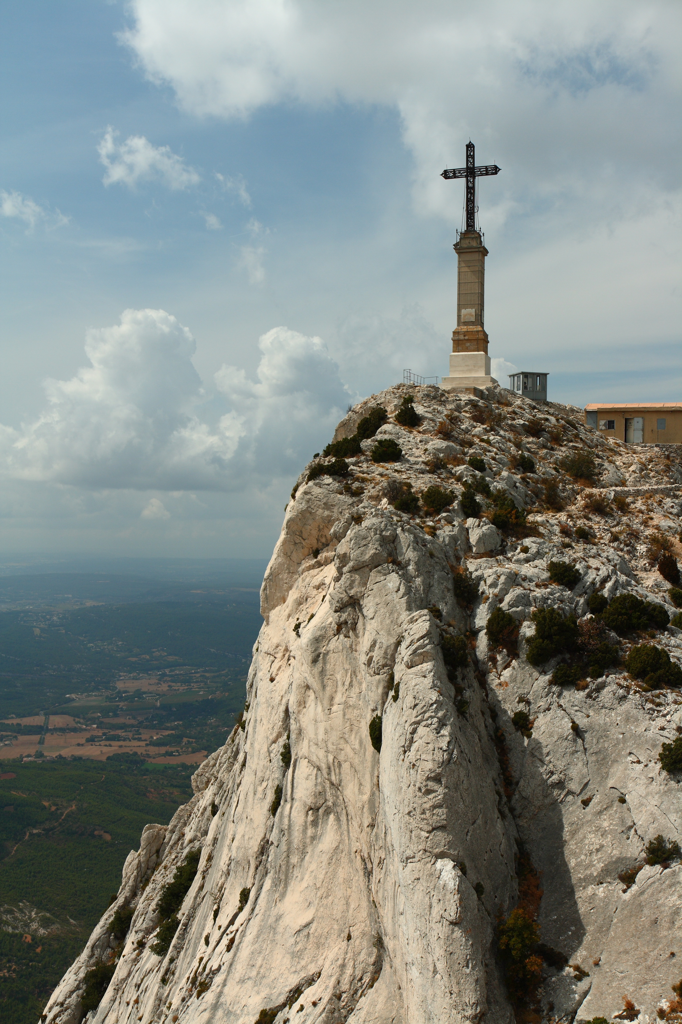 The Croix de Provence (Cross of Provence) on Montagne Sainte-Victoire (Mount Saint-Victory, summit 1,011 metres) near Aix-en-Provence in Bouches-du-Rhône, France. The cross is 19 metres high, built on a 946-metre point on the mountain, below the summit.